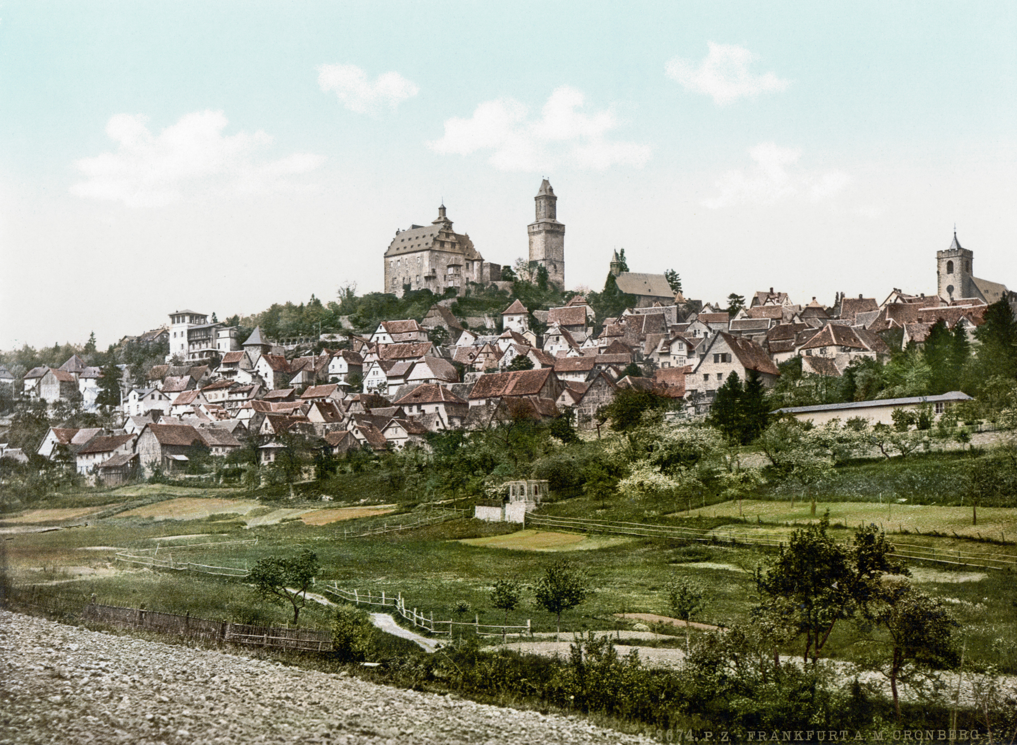 Kronberg, 1900